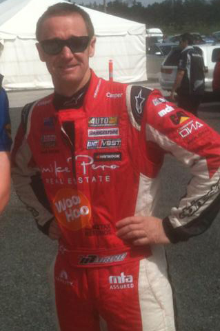 Greg Murphy taking photo with fan (DustyFapper) at Round 6 Hampton Downs